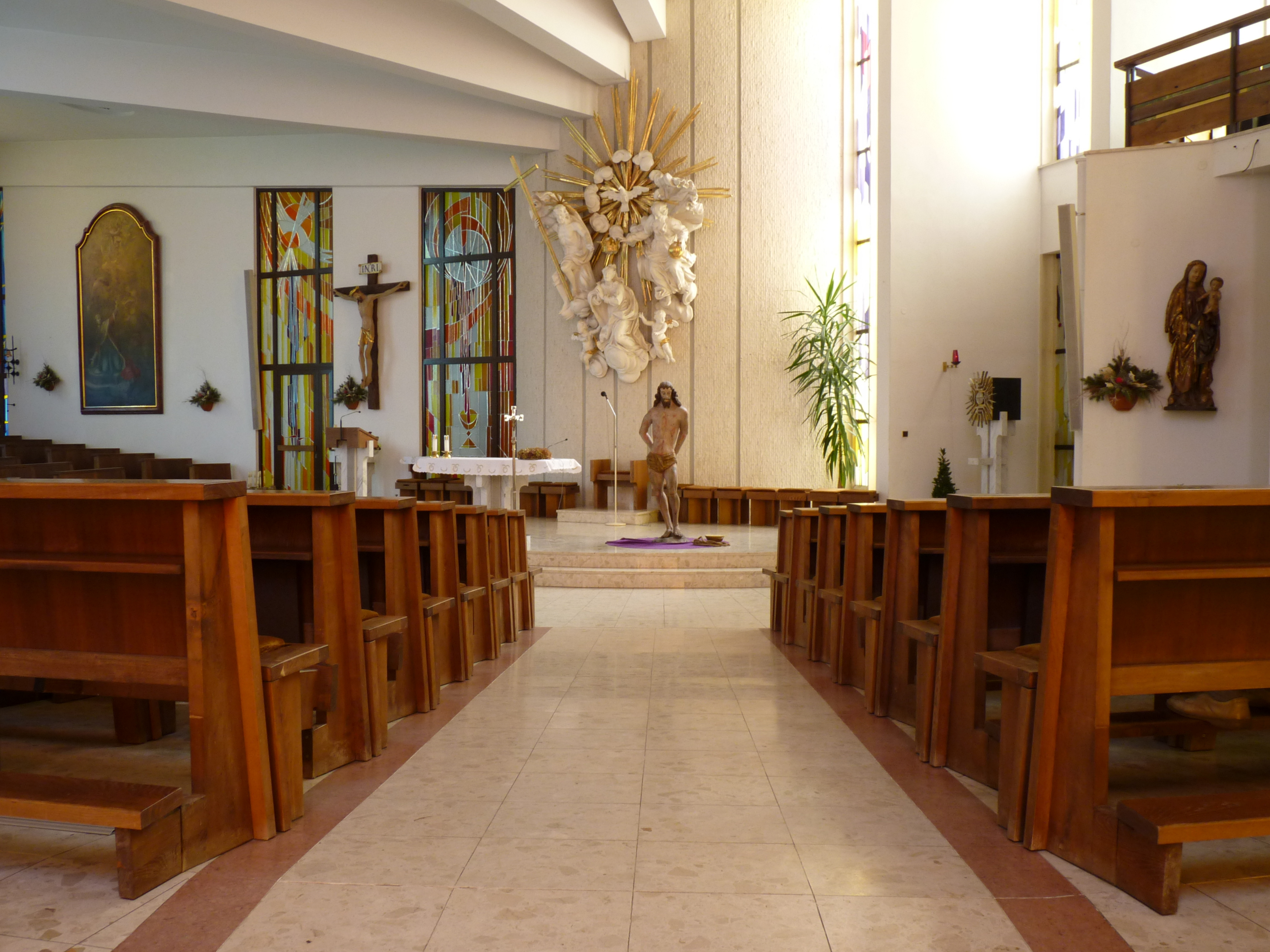 Church of Saint Agnes of Bohemia (interior). Hustopece, Breclav District, South Moravian Region, Czech Republic Project: Chráněná území